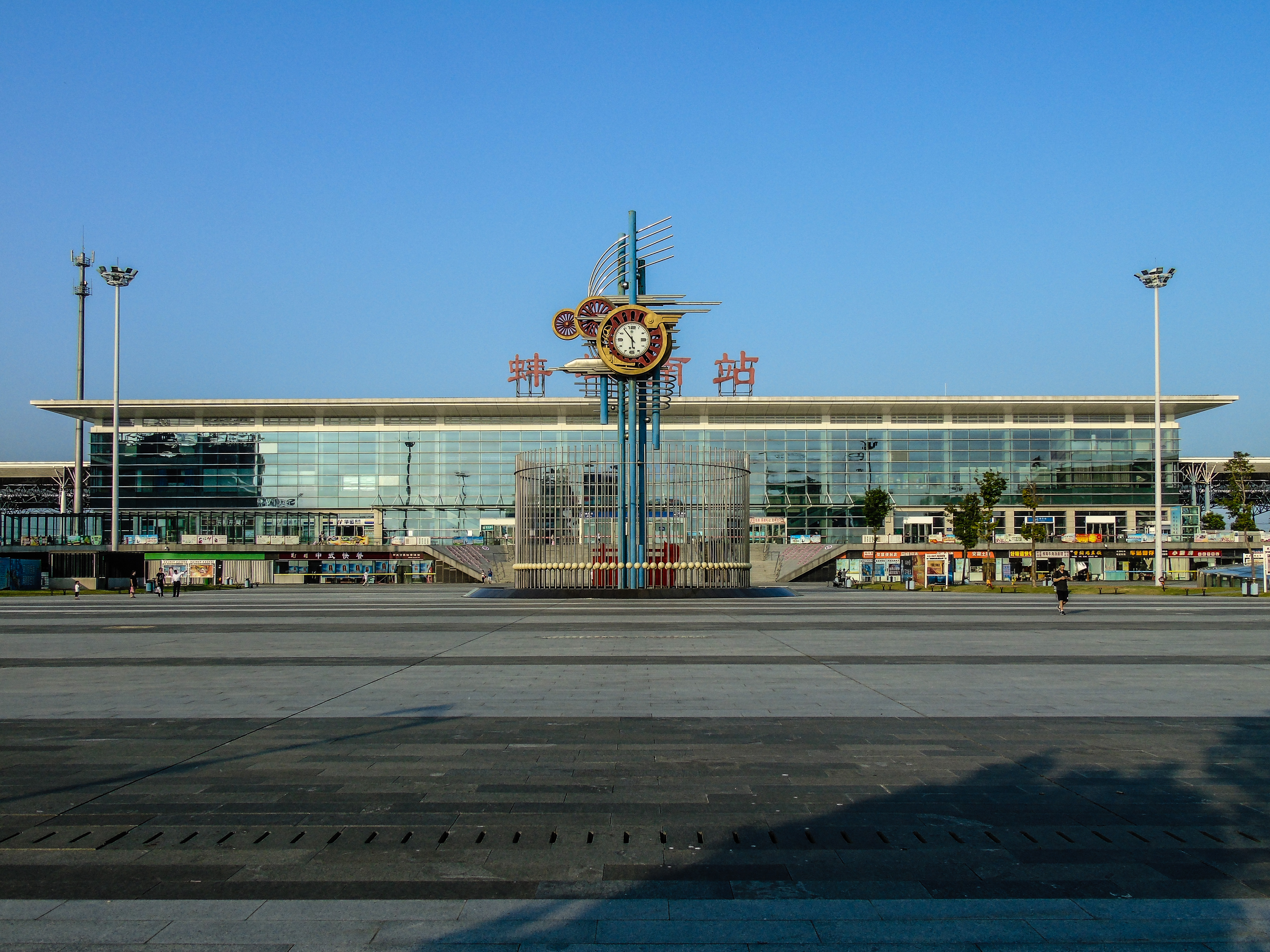 Beijing-Shanghai High-Speed Railway and Hefei-Bengbu High-Speed Railway converged there.